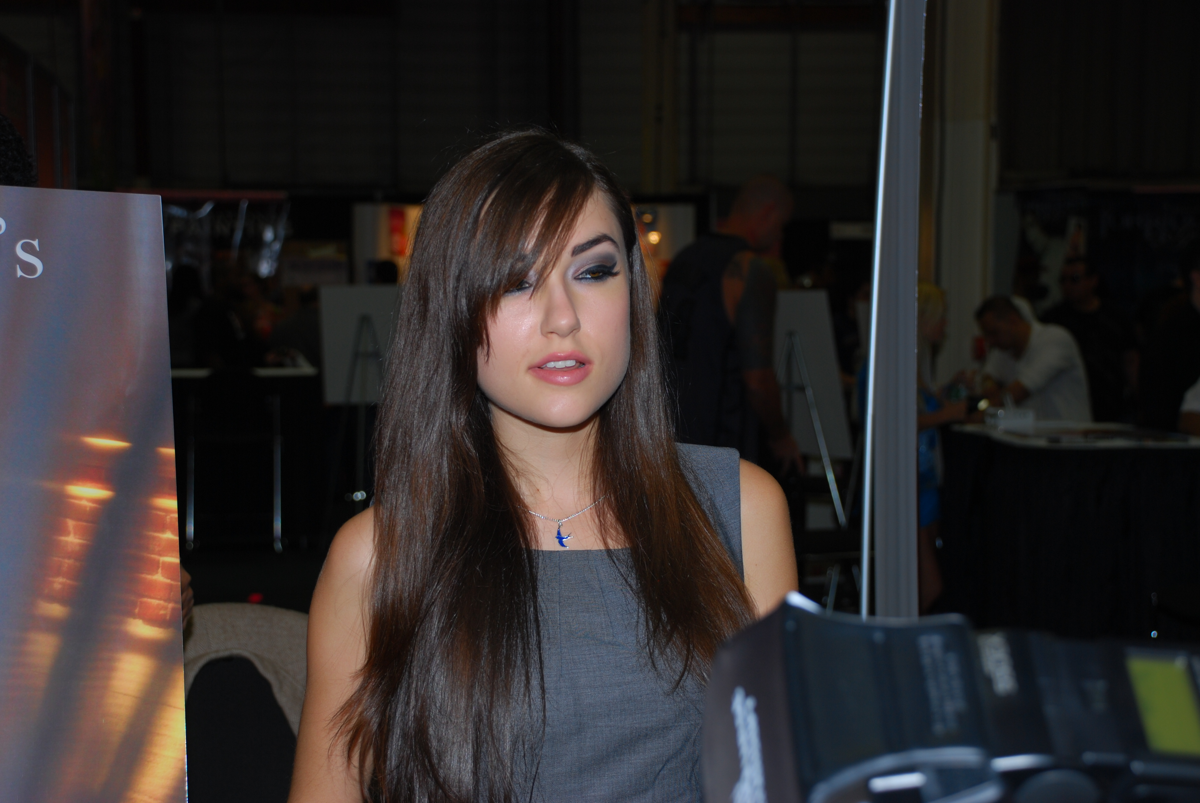 Sasha Grey at Exxxotica NY 2009